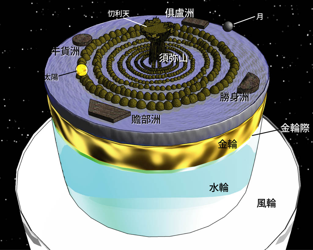 Shumisen. Mount Meru in Buddhism mythology.